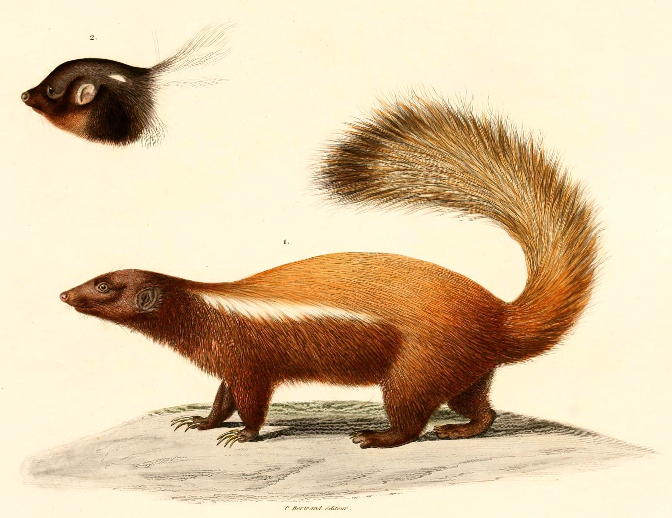 « Mephitis humboldtii » = Conepatus humboldtii (Humboldt's hog-nosed skunk)